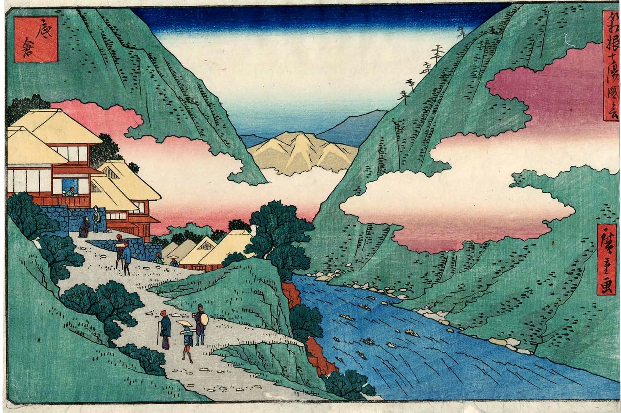 Japanese woodblock print, Sokokura, from the series Seven Hot Springs of Hakone (Hakone shichiyu zue) by Utagawa Hiroshige, 1852